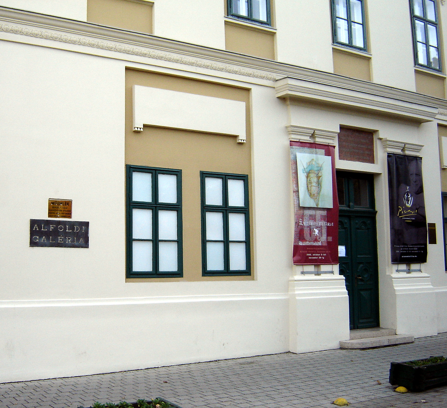 Alföldi Gallery in Hódmezővásárhely (entry)